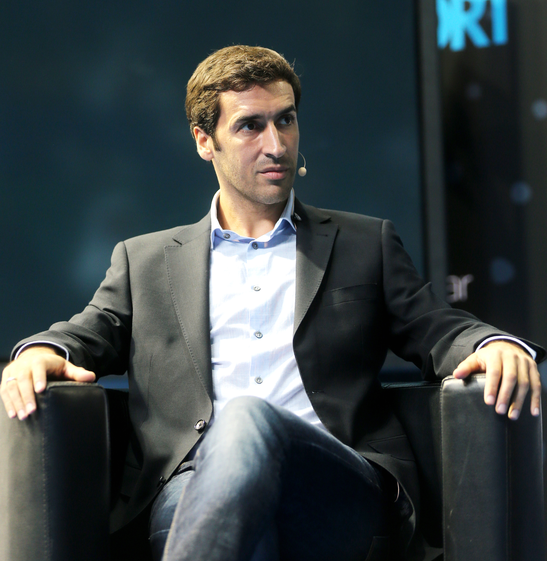 Raúl González during the Aspire4Sport Conference in Doha